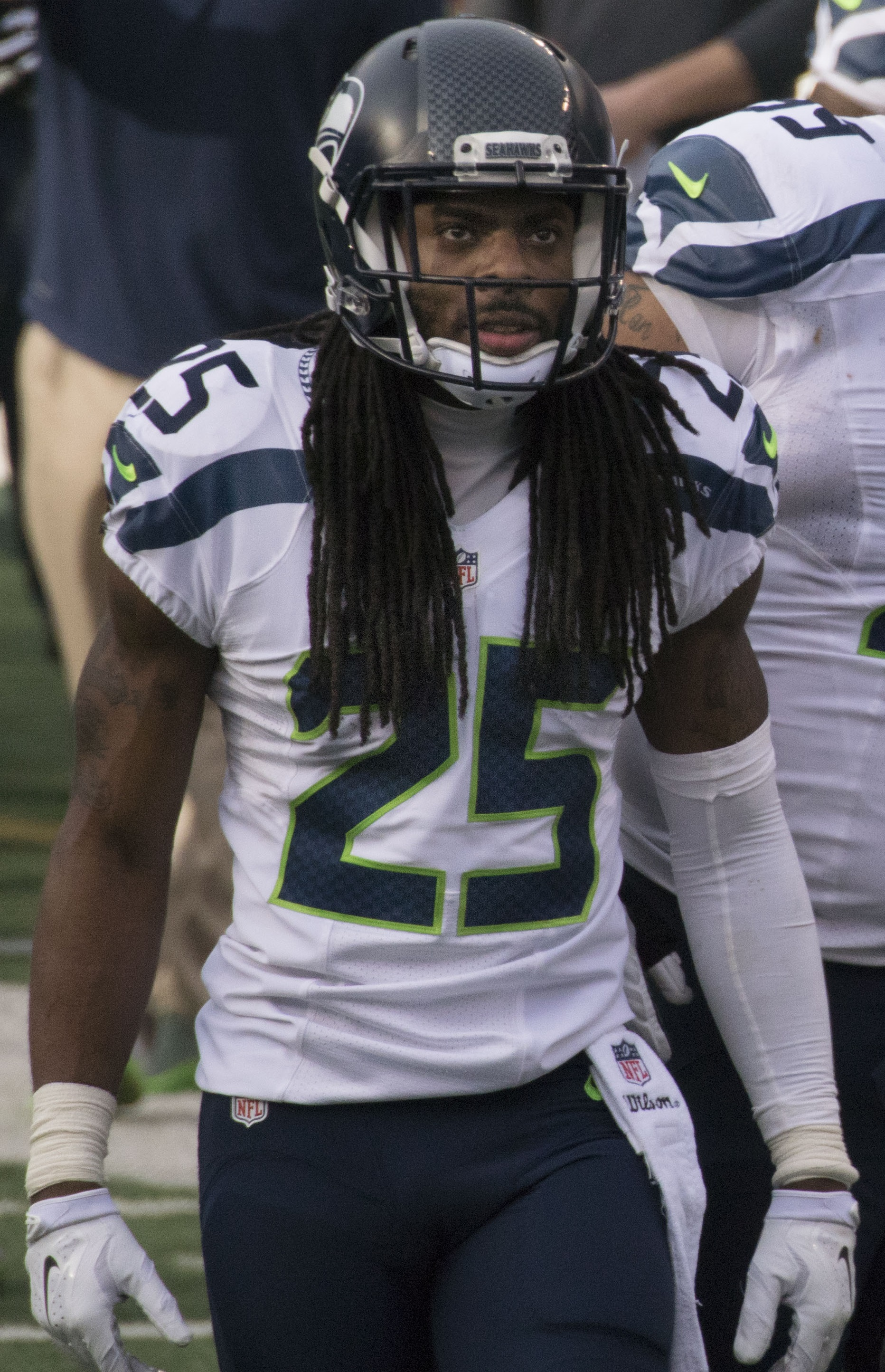 Seahawks at Ravens 12/13/15